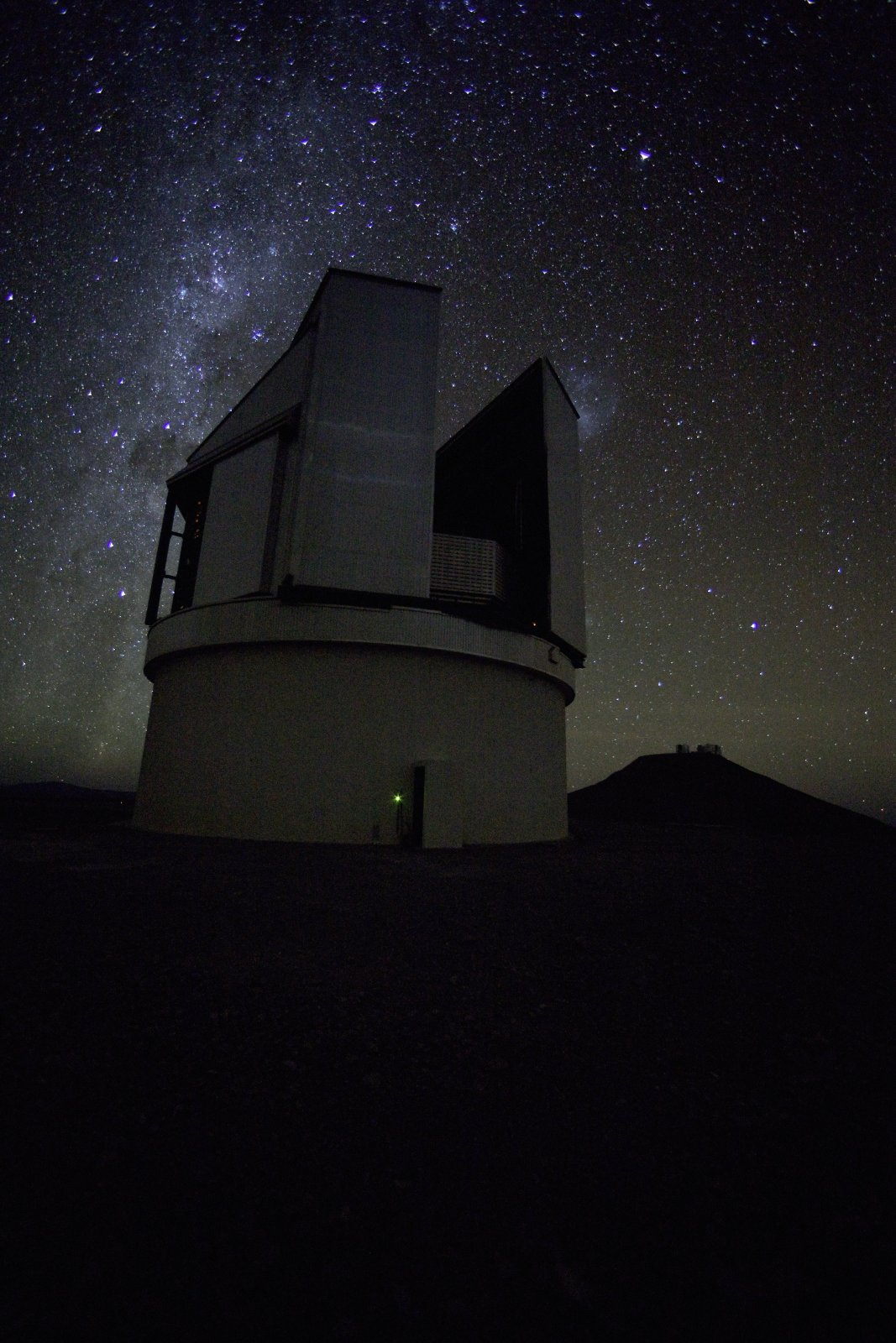 Night-time image of the dome of the VISTA (Visible and Infrared Survey Telescope for Astronomy), with the Milky Way in the background and the Very Large Telescope on the horizon.